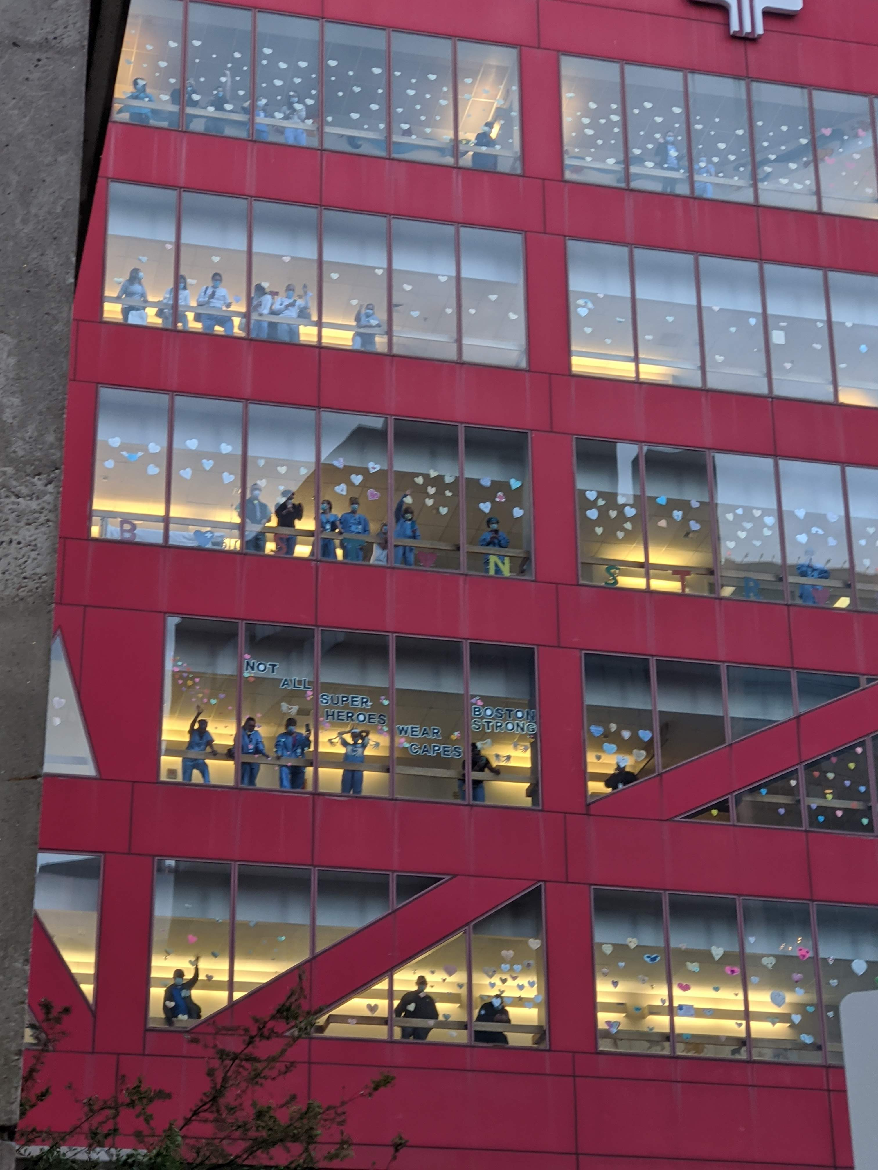 Tufts Medical Center personnel cheer from windows for those protesting against police brutality and the killing of George Floyd in Boston, MA. The march passed underneath one of Tuft Medical Center's buildings.